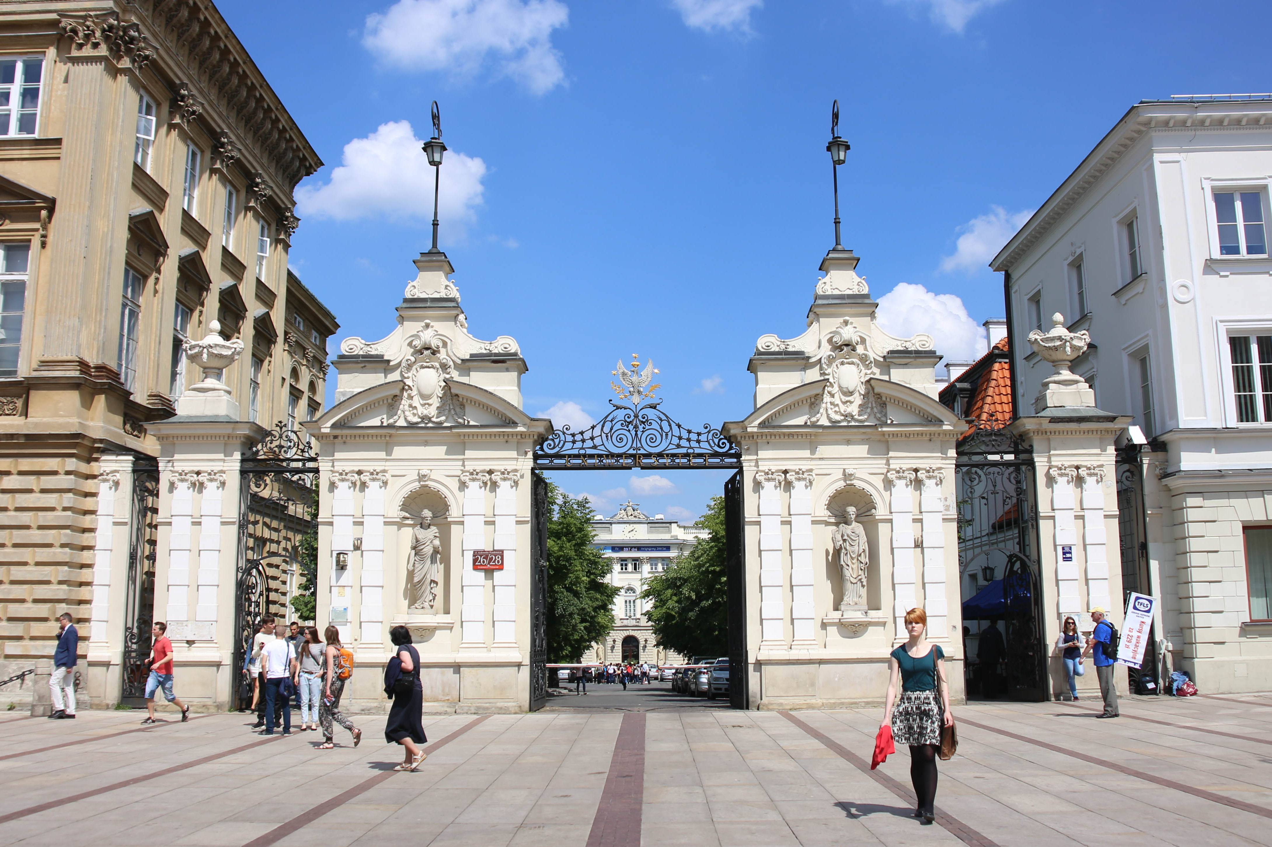 The main gate of the University of Warsaw